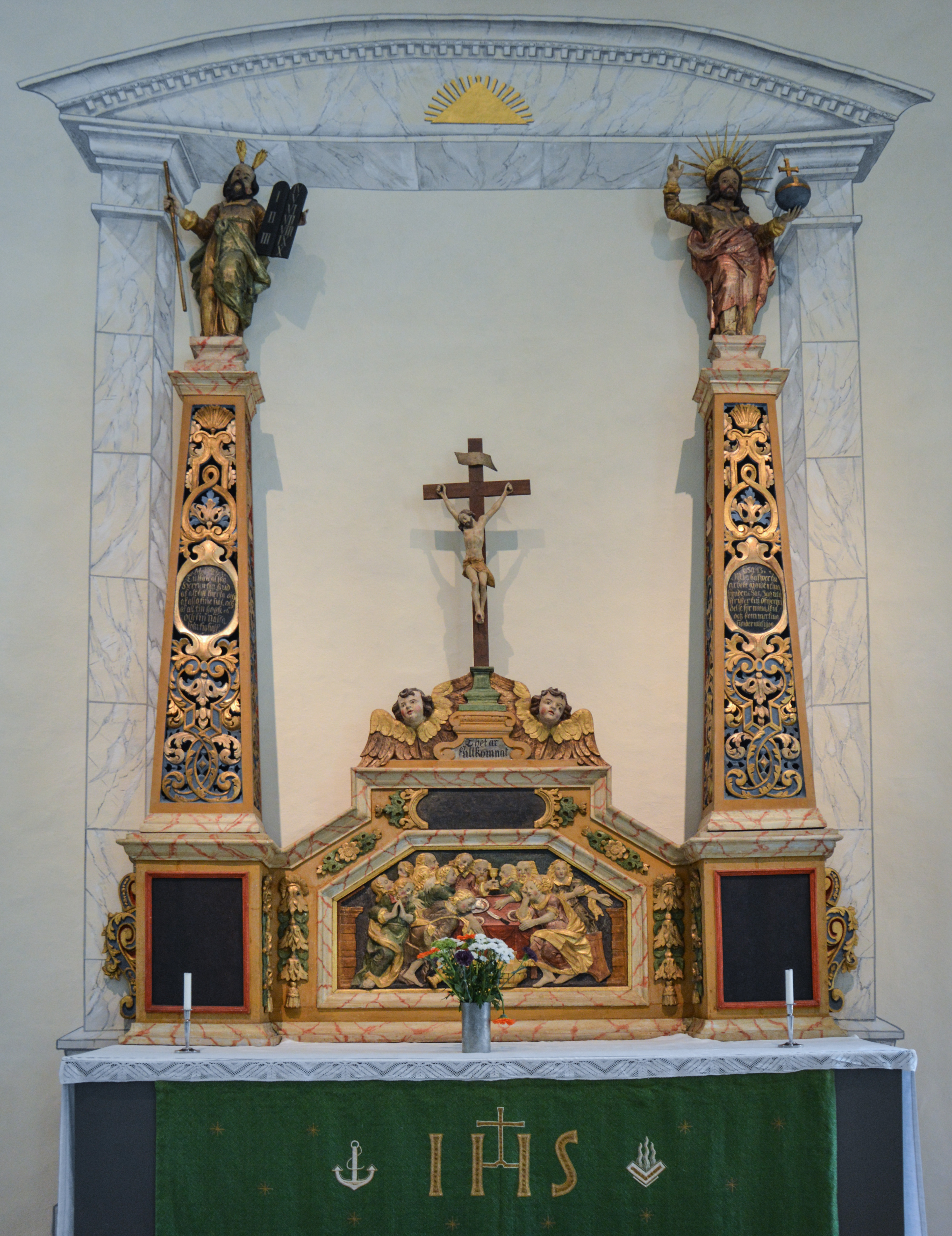 Åseda Church.Reredos made in 1724 by Sven Segervall.